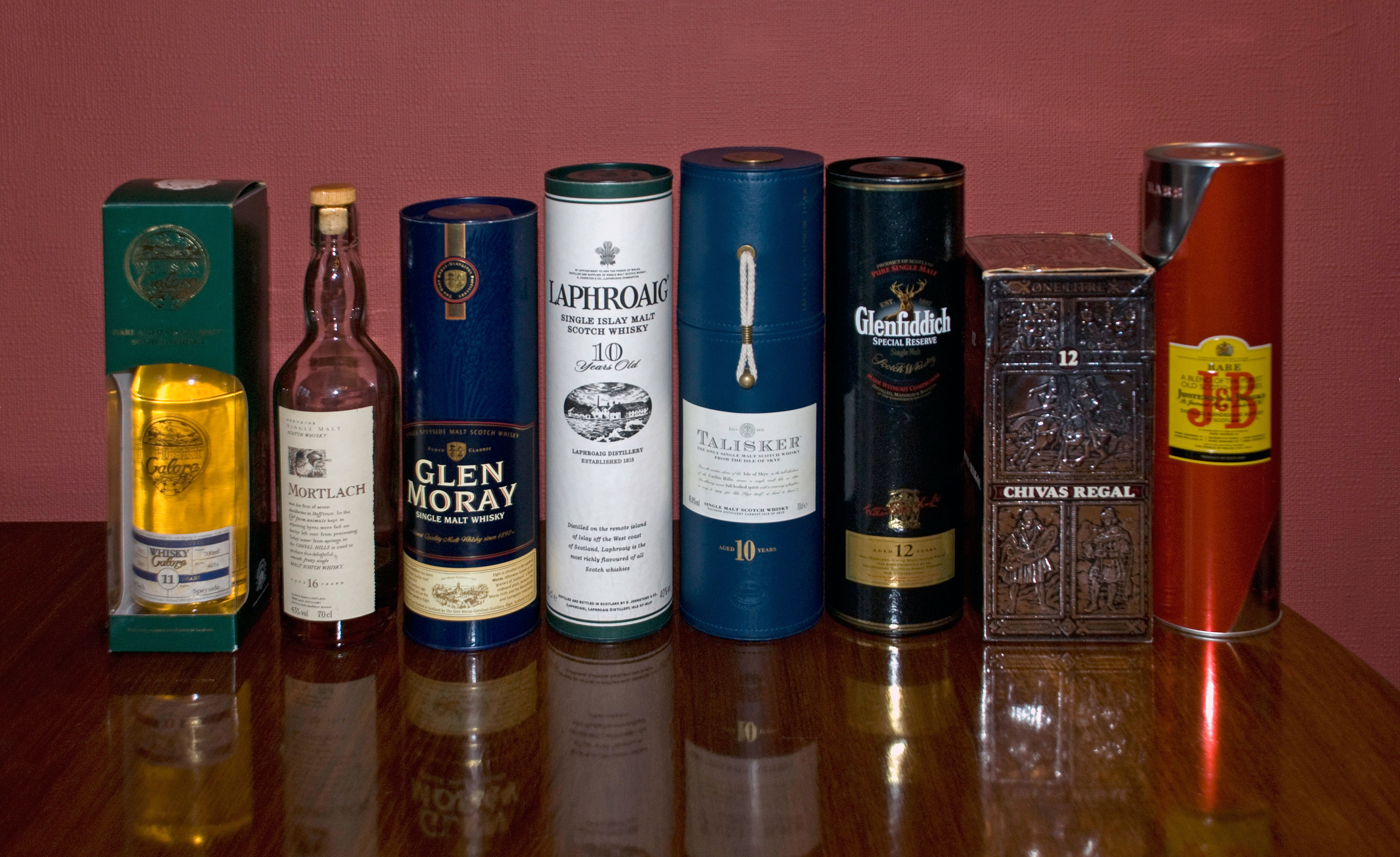 Various Scotch Whiskies. From left: Whisky Galore Single Malt (Speyside), Mortlach Single Malt (Speyside), Glen Moray Single Malt (Speyside), Laphroaig Single Malt (Islay), Talisker Single Malt (Skye), Glenfiddich Single Malt (Highland), Chivas Regal Blend (Highland), J&B Blend